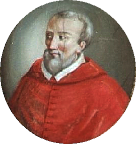 Cardinal Vincenzo Lauro, papal nuntio to Poland